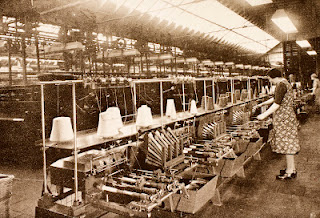 Workers in Blarney Woollen Mills